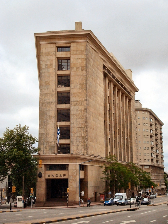 The building of ANCAP in Montevideo, Uruguay. View from Libertador Avenue.